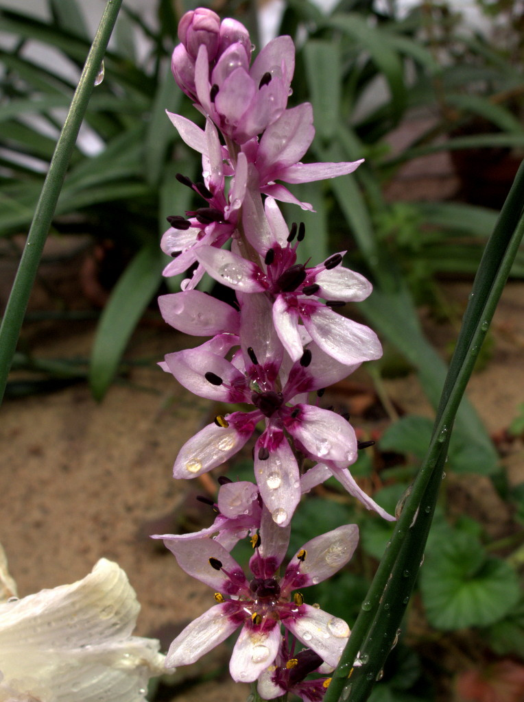 Wurmbea stricta. Identified by sign (syn. Onixotis stricta).